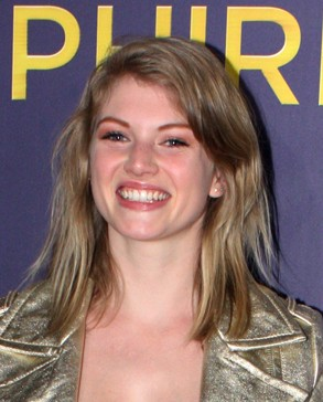 Cariba Heine at The Sapphires movie premiere